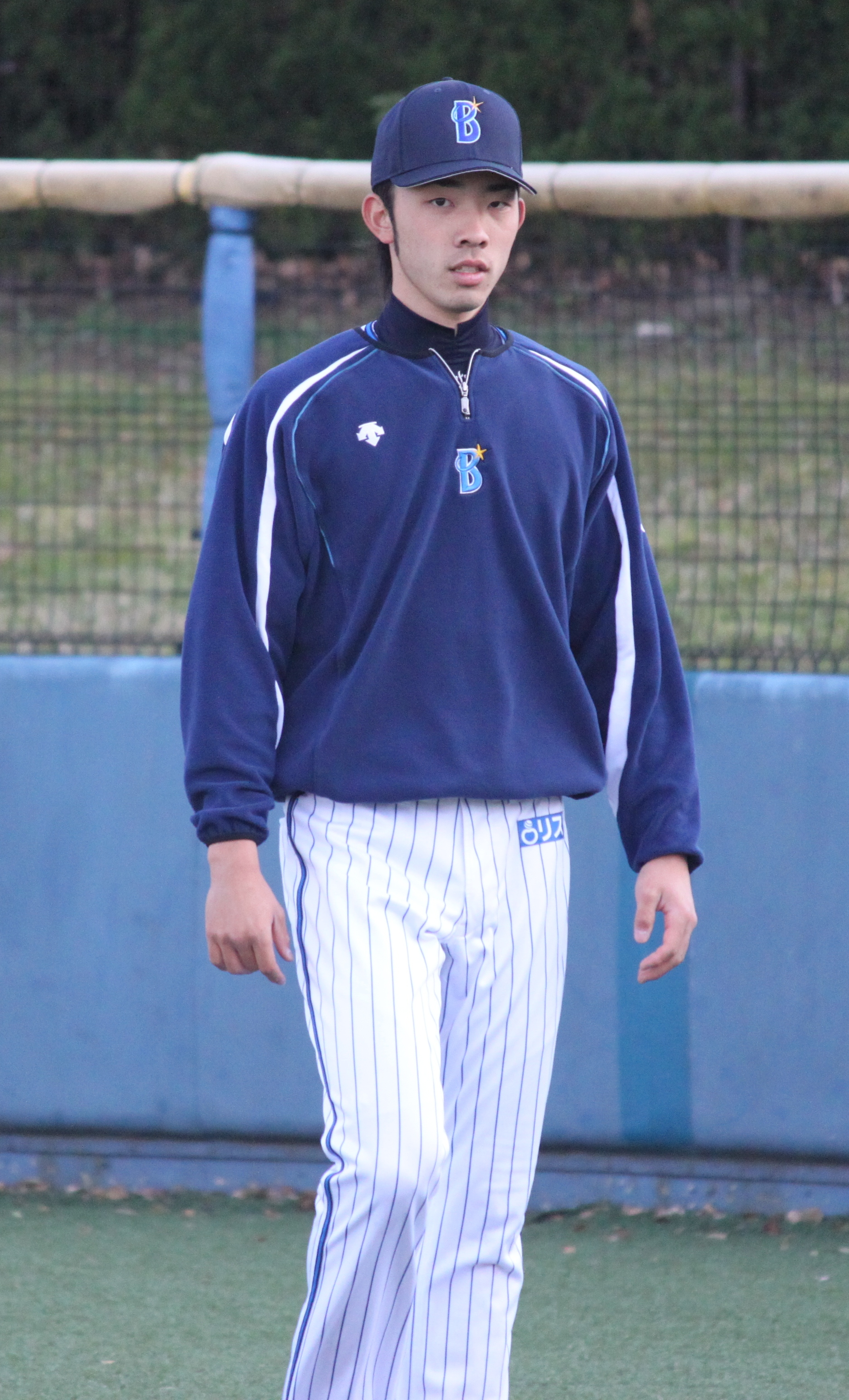 Taketora Anzai, pitcher of the Yokohama DeNA BayStars, at Yokosuka Stadium.